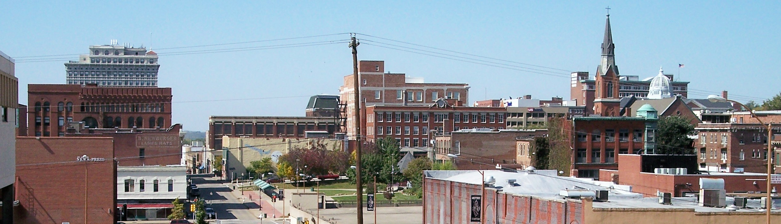 Downtown Saint Joseph, Missouri as viewed from the east near the intersection of 10th and Charles